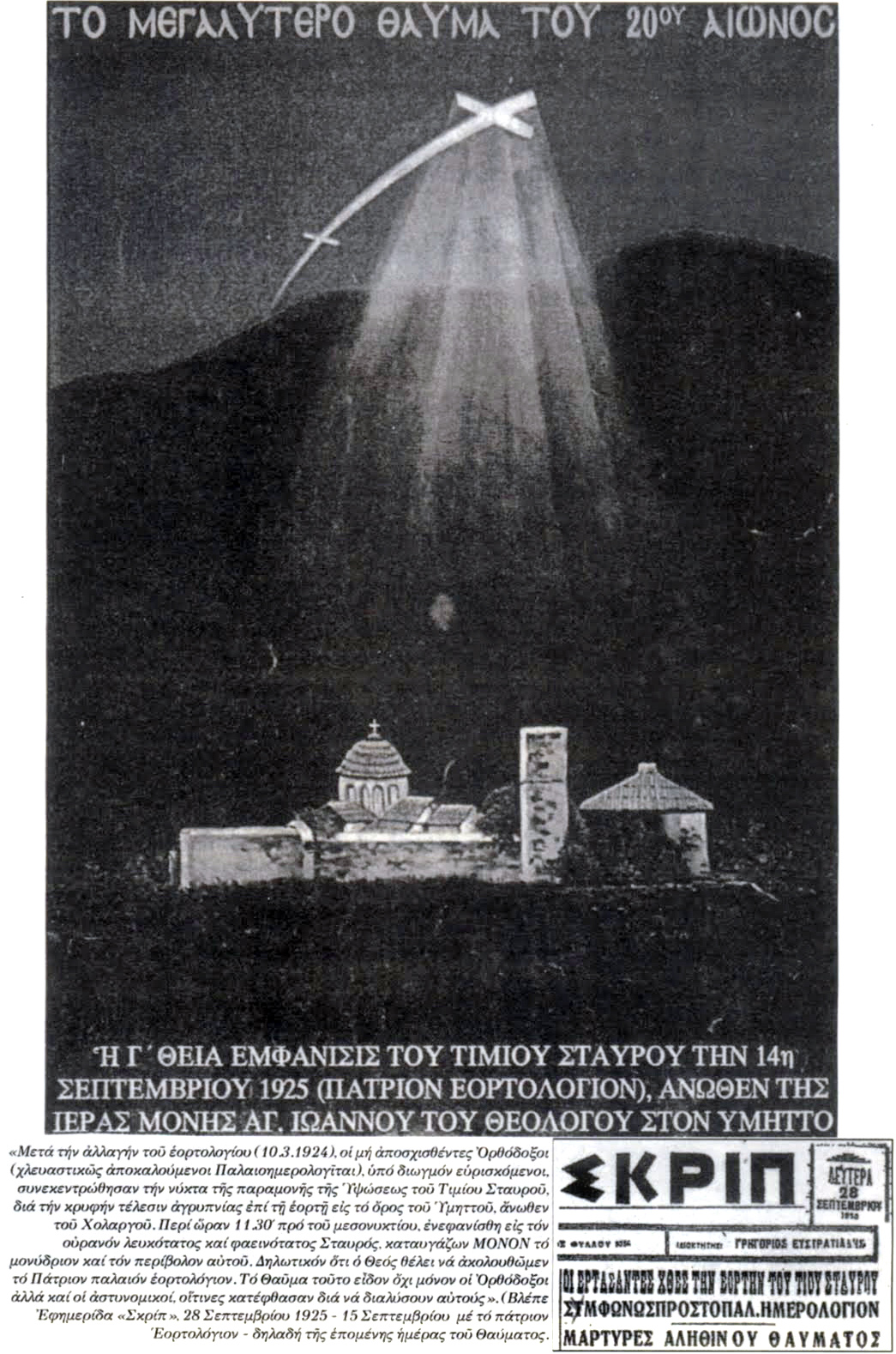 View of third appearance of the Holy Cross over the Monastery of St. John the Theologian in Hymettus. Editorial SKRIP (Athens, Greece), 1925.